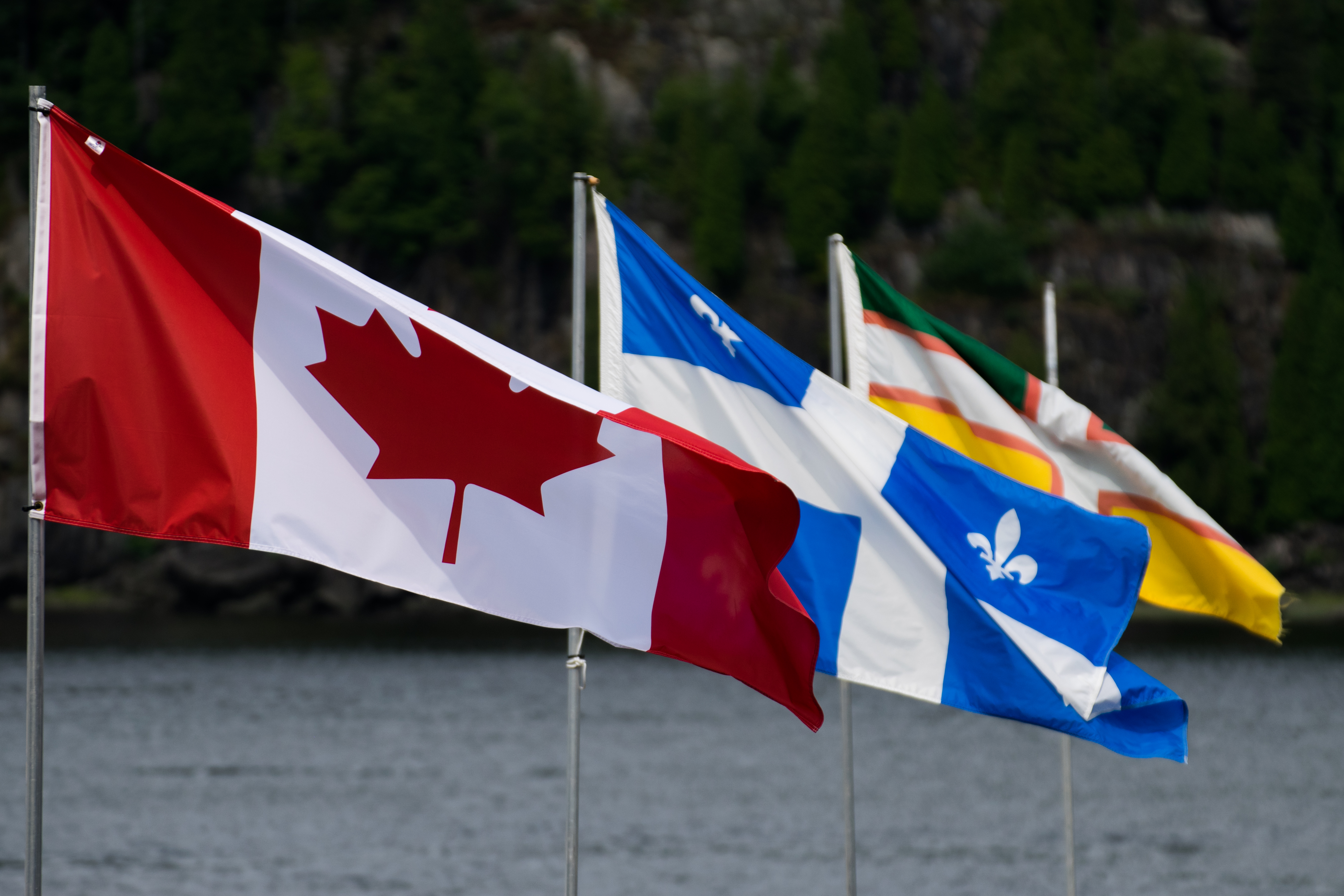 The flag of Canada, the Flag of Quebec and the flag of Saguenay–Lac-Saint-Jean seen at Chicoutimi along the Saguenay River, Quebec, Canada.